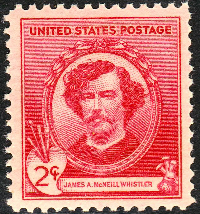 James_A_M_Whistler_1940_Issue-2c.jpg